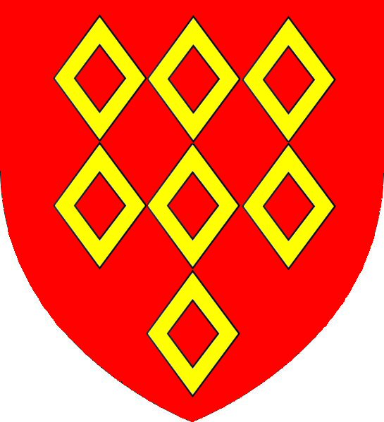 Arms of De Quincy: Gules, seven mascles or 3,3,1